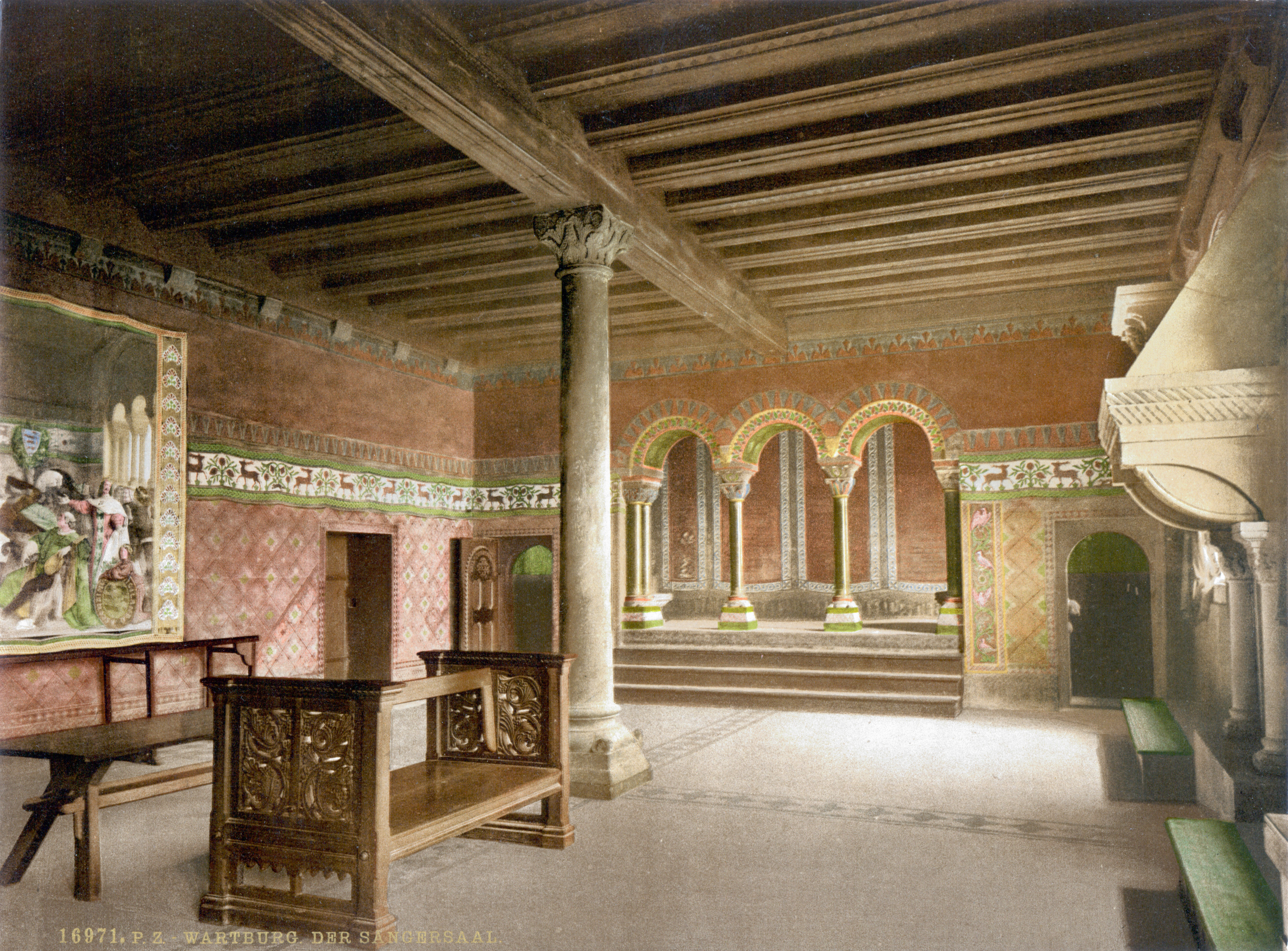 Wartburg - Saengersaal between 1890 and 1900